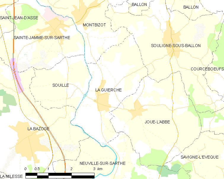 Map of French municipality